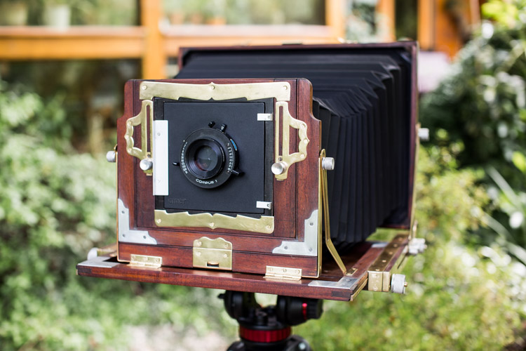 Image Courtesy: Christian Klant